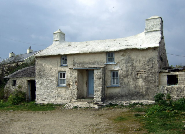 Old Treleddyd-fawr Among the spruced-up holiday cottages in the hamlet of Trededdyd-fawr is this asymmetric survivor from a former age, perfectly adapted to its climatic environment with solid walls, sheltering porch, tiny windows and ample chimneys, the whole covered in a protective, weather-cheating coat of grout and limewash. It has been the lifetime's home to an old inhabitant who saw no reason to change what had always worked for him and his forbears...back to the mid C17 when this dwelling is reckoned to have been constructed.